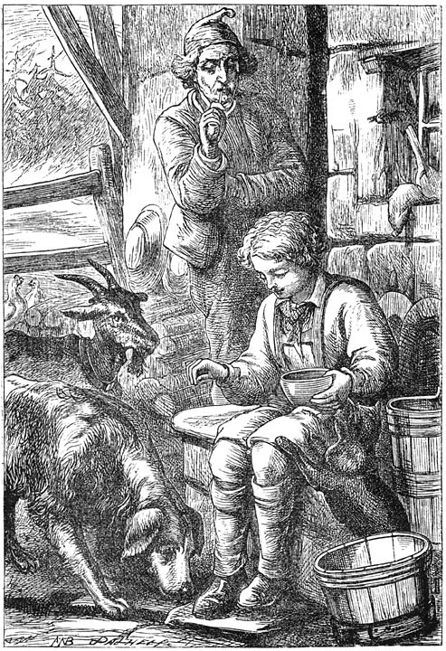 From 'Andersens Sproken en vertellingen' by Hans Christian Andersen, Titia van der Tuuk (ed.) and Simon Jacob Andriessen (trans.). Gebroeders E. & M. Cohen, Nijmegen - Arnhem. Illustrated by Alfred Walter Bayes (1832-1909) and engraved by the Dalziel Brothers (Edward Daziel, 1817-1905; George Daziel, 1815-1902).